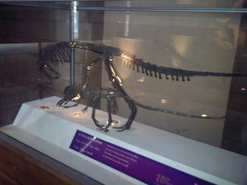 Two young Hypsilophodon at the Natural History Museum in London, England.